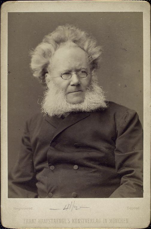 Norwegian writer Henrik Ibsen photo portrait later in his career